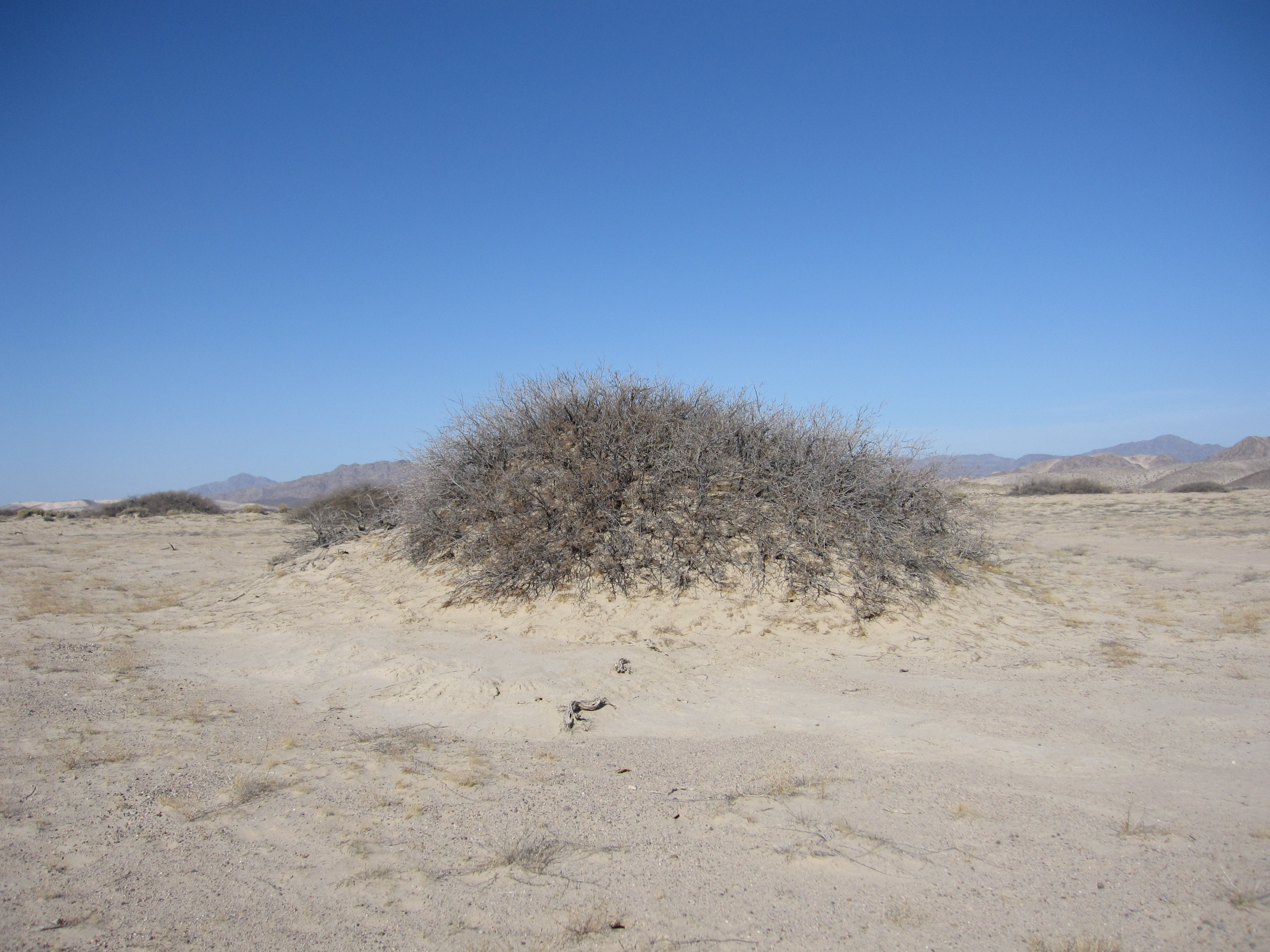 Prosopis glandulosa forming nebkha (nabkha), Mojave National Preserve, San Bernardino County, California, USA